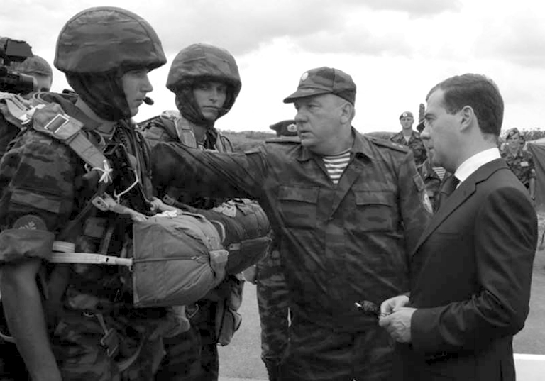 Lt. Gen. Vladimir Shamanov and President Dmitry Medvedev inspect personnel of the Russian Airbirne Troops, equipped with new parachute systems, July 2009.